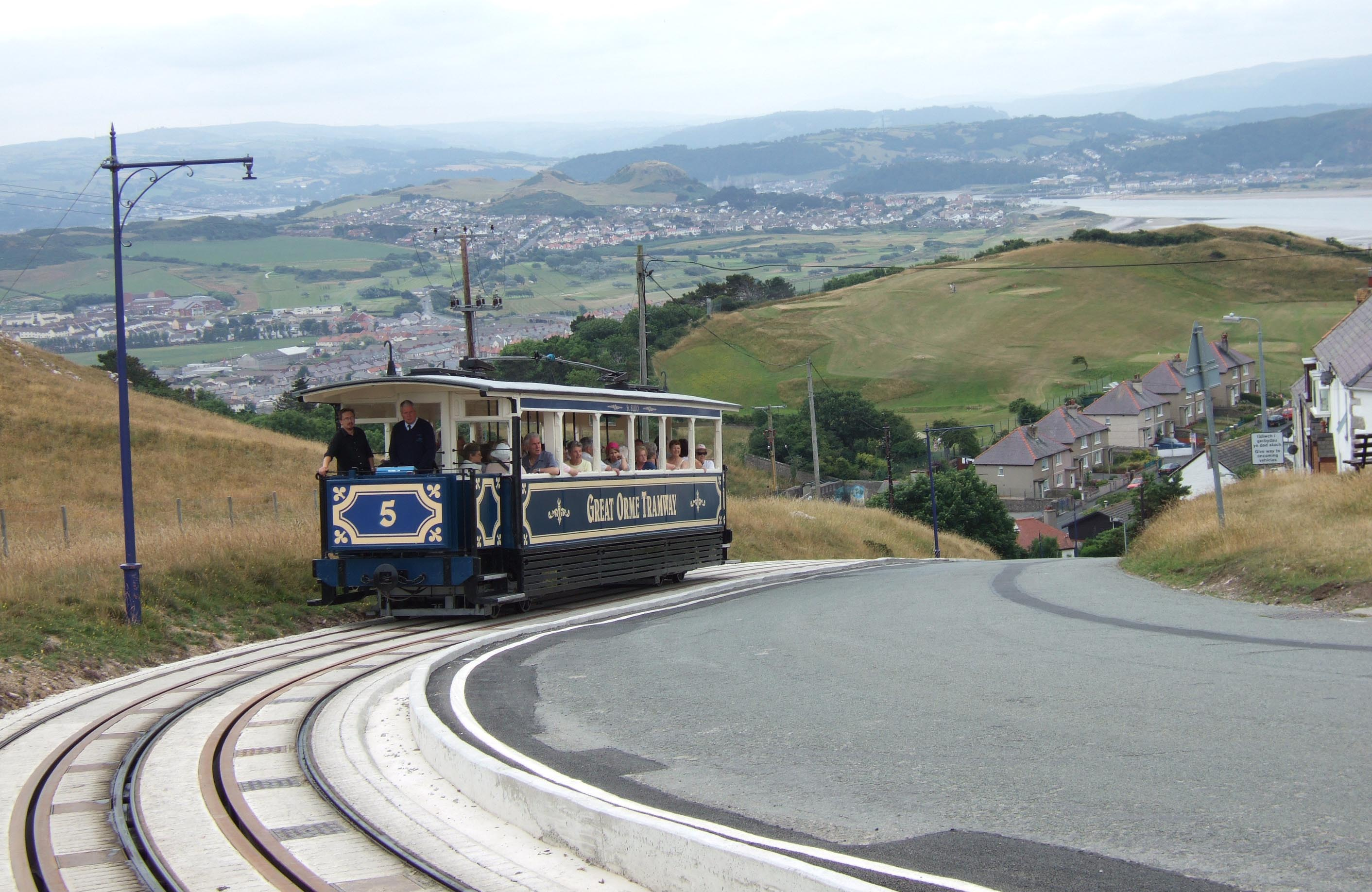 Great Orme Tramway Tram No.5 Ascending. 25th September 2005 Photographer - A.M.Hurrell Camera - Fuji FinePix F10 Modified - Trimmed and file size reduced using Adobe Photoshop 5.0LE